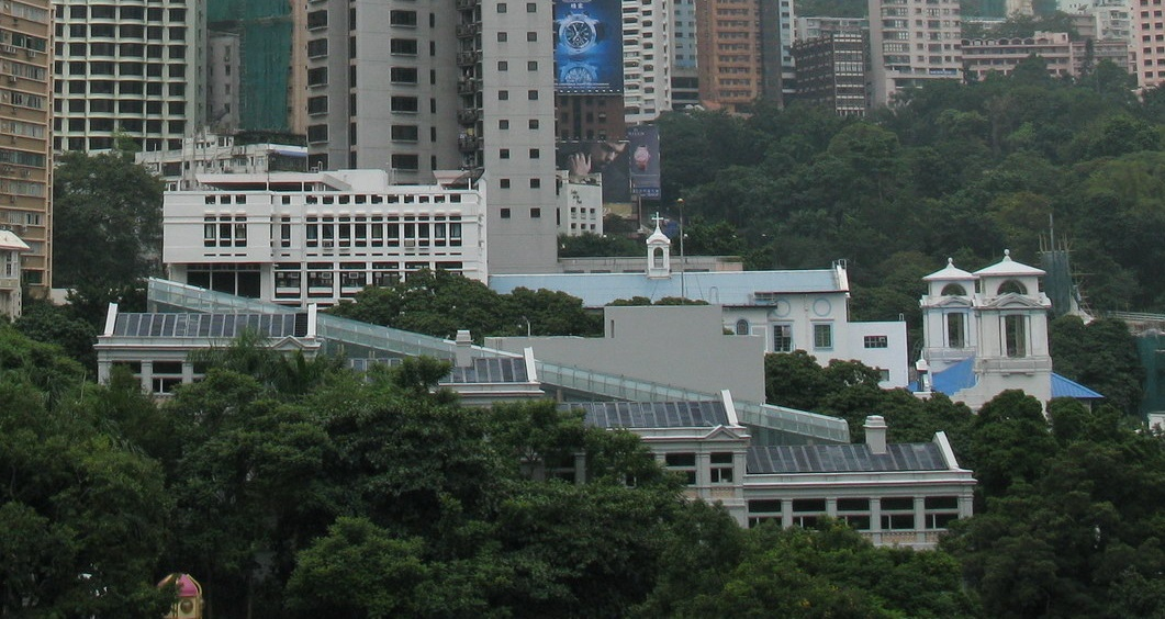 Side view of Hong Kong Visual Arts Centre, with St. Joseph's College in the background.